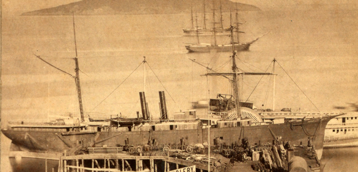 Steamer Ajax at the Greenwich Street Wharf in San Francisco, cropped from a stereoscopic view